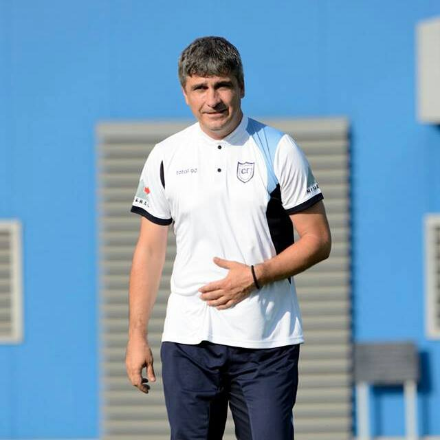 Rumen Stoyanov - bulgarian football coach